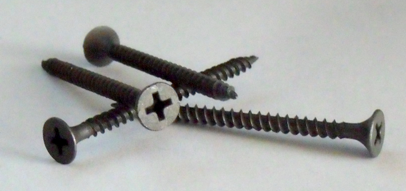 Photo of two slightly different (but both quite typical) drywall screws.